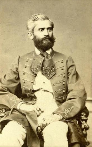 Sigismund Borlea as a member of the Hungarian Parliament